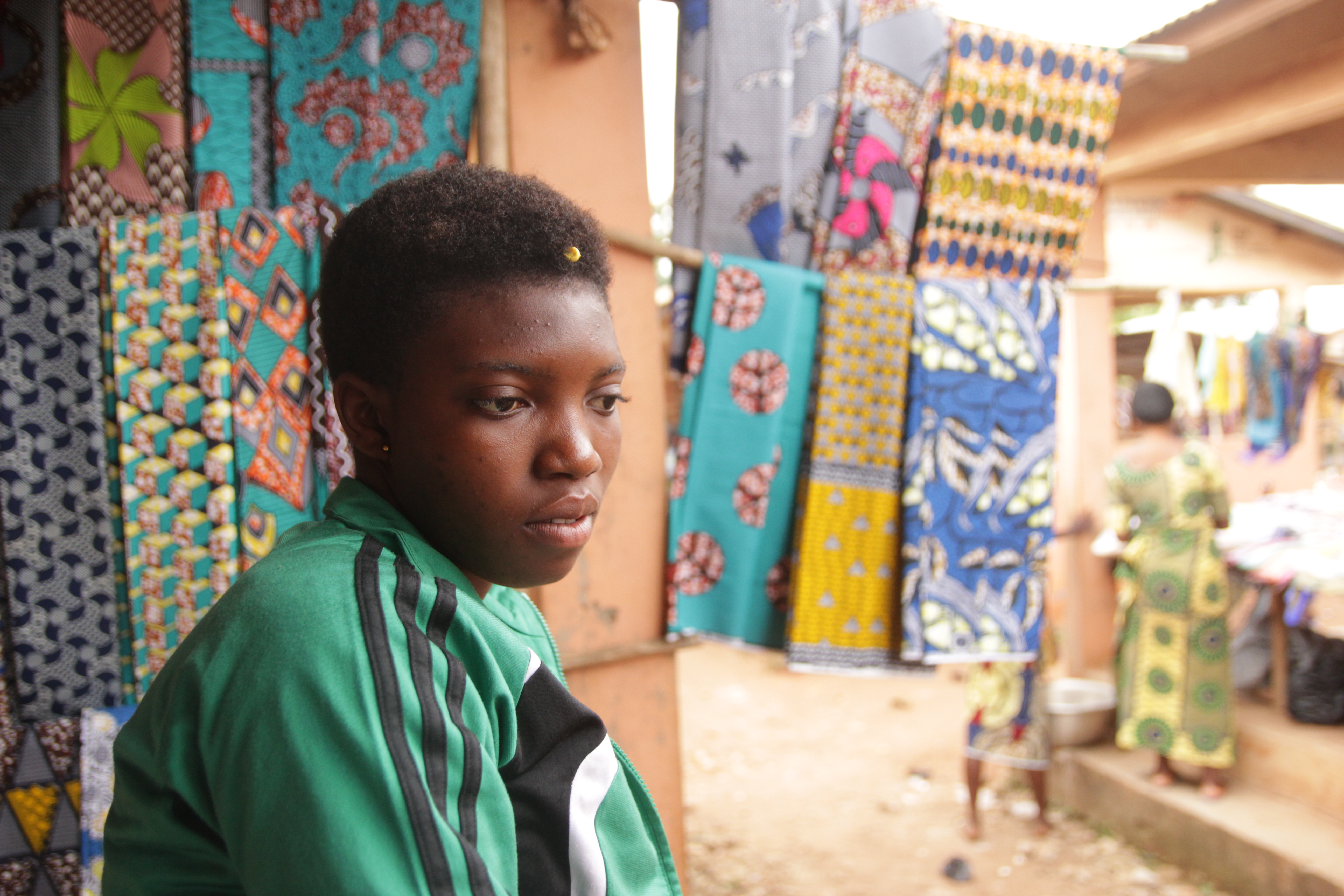 A girl sells colorful fabric, called tissue, at the Tangbo-Djevie market. These fabrics are used to make boombas, the traditional dress of Benin. Boombas are often finely tailored pants and matching shirts for men, and skirts, matching tops, and headdresses for women.